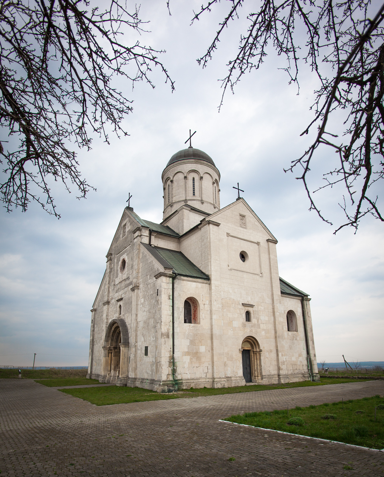 Saint Pantaleon Church, Shevchenkove, Halych Raion